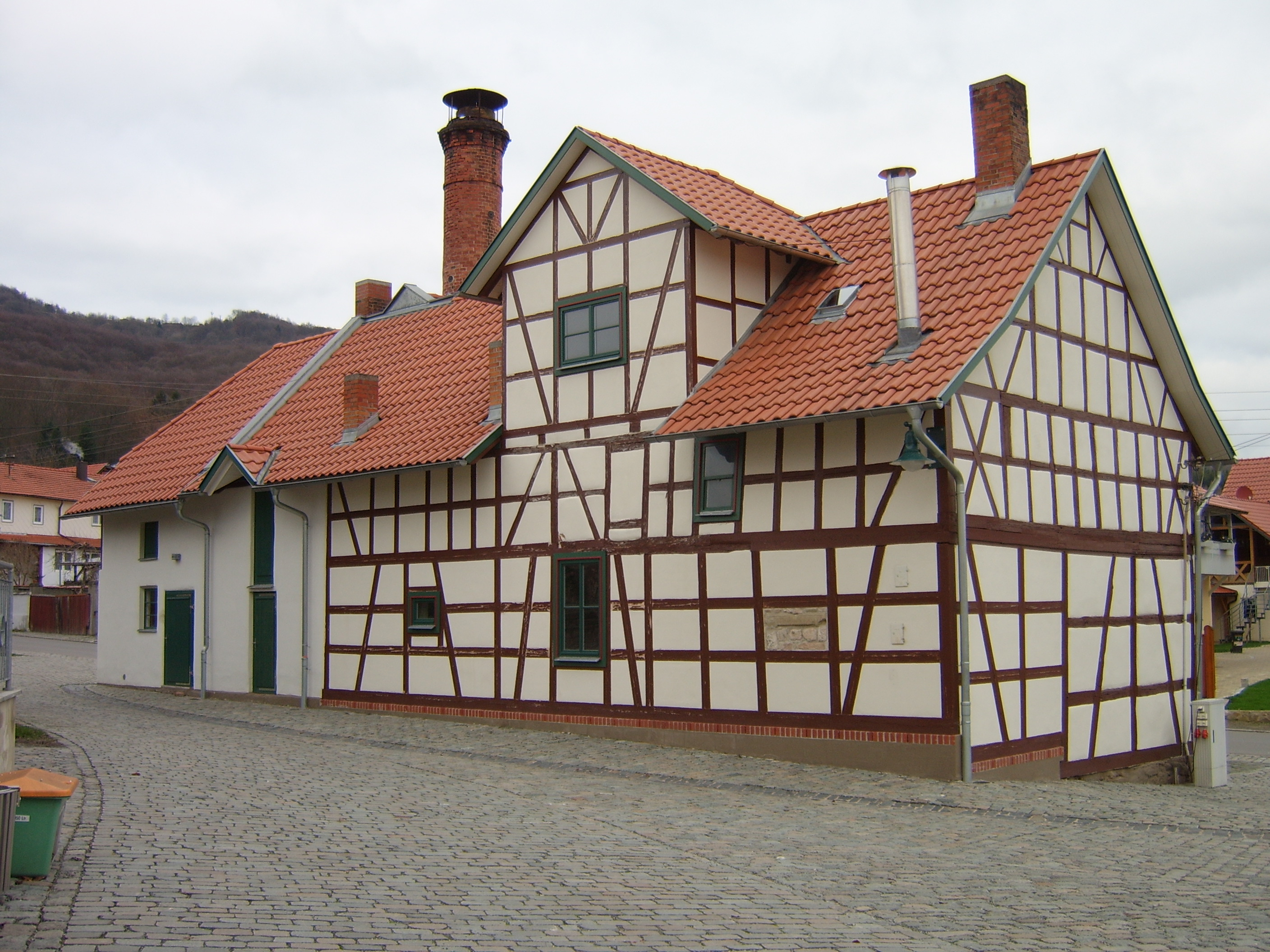 brewhouse of Gleichamberg